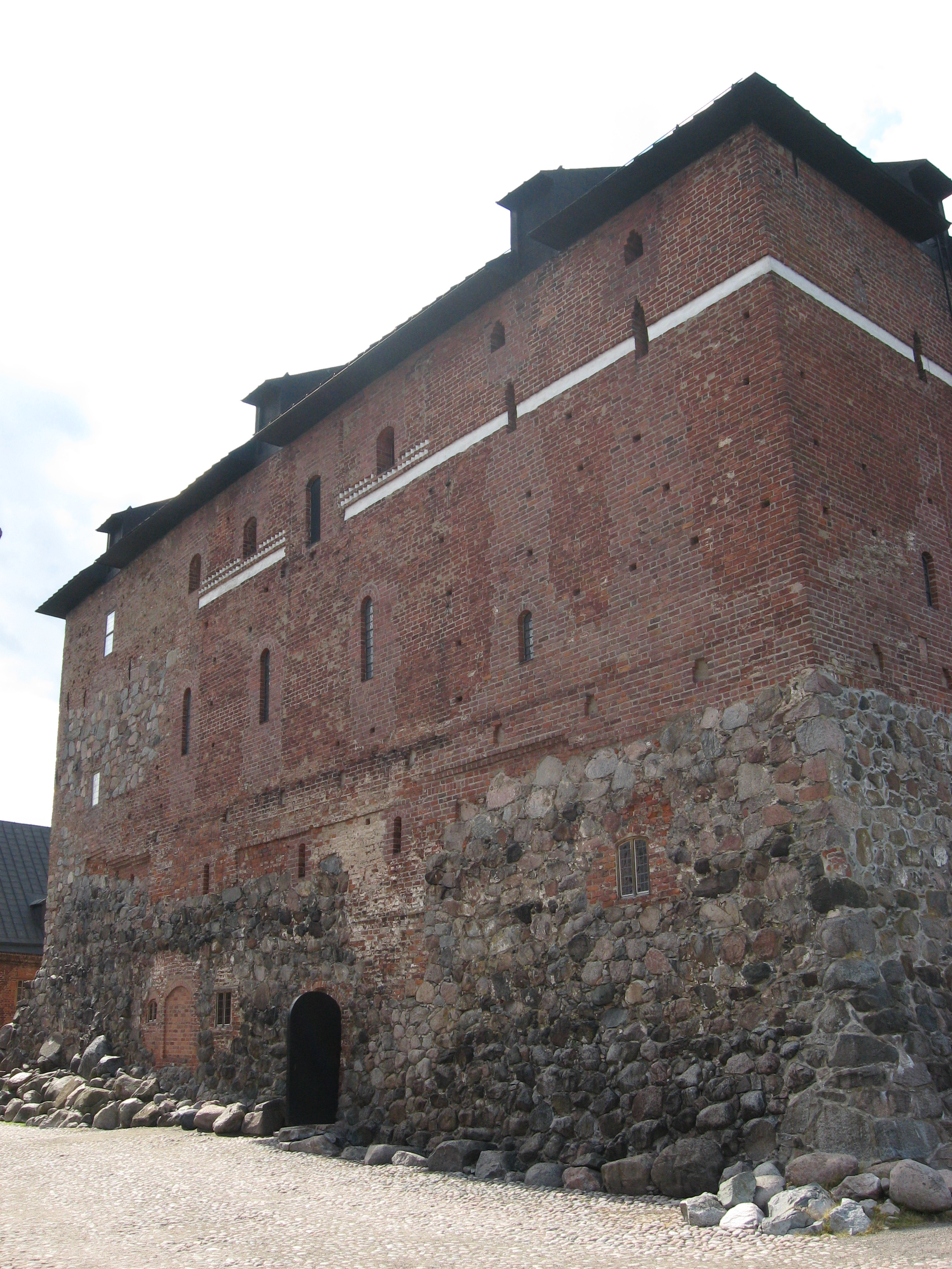 Castle of Hämen main keep seen from round tower corner, ground level, facing NW. Hämeenlinna, Finland.